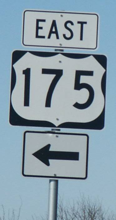 East US 175 sign. Photo taken by submitter in March, 2004, east of Kaufman, Texas. Released without restriction to the public domain.